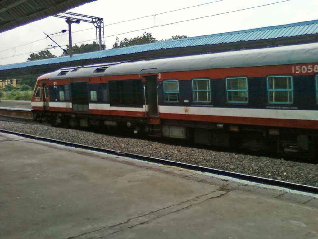 Miryalguda-KCG DEMU Passenger train at Sitaphalmandi